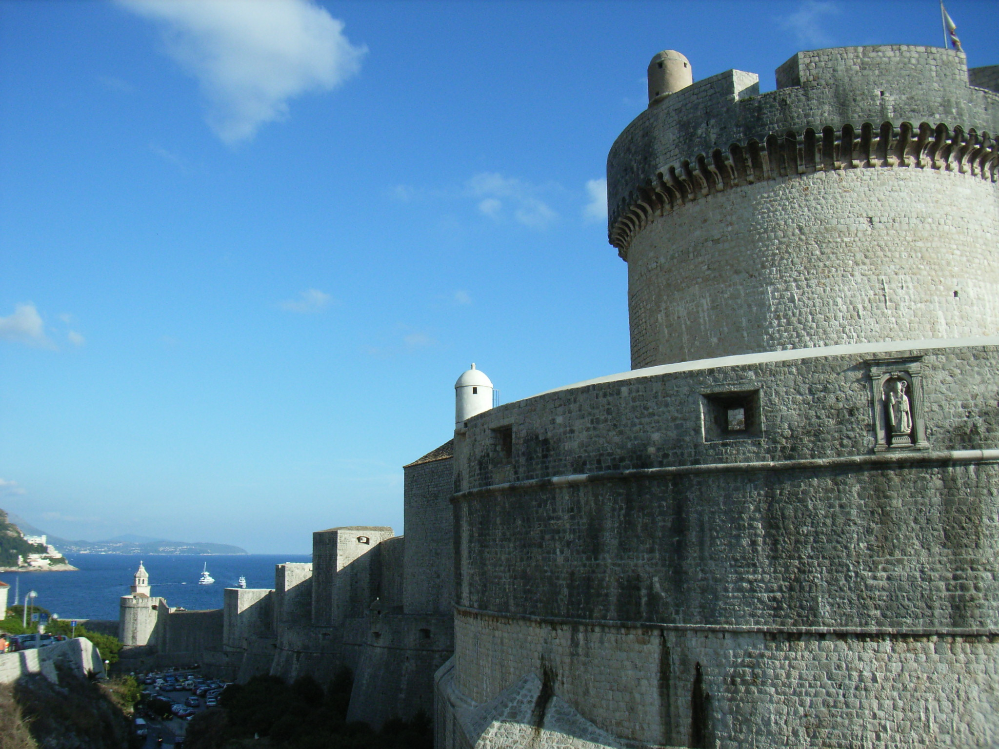 The city walls of Dubrovnik.